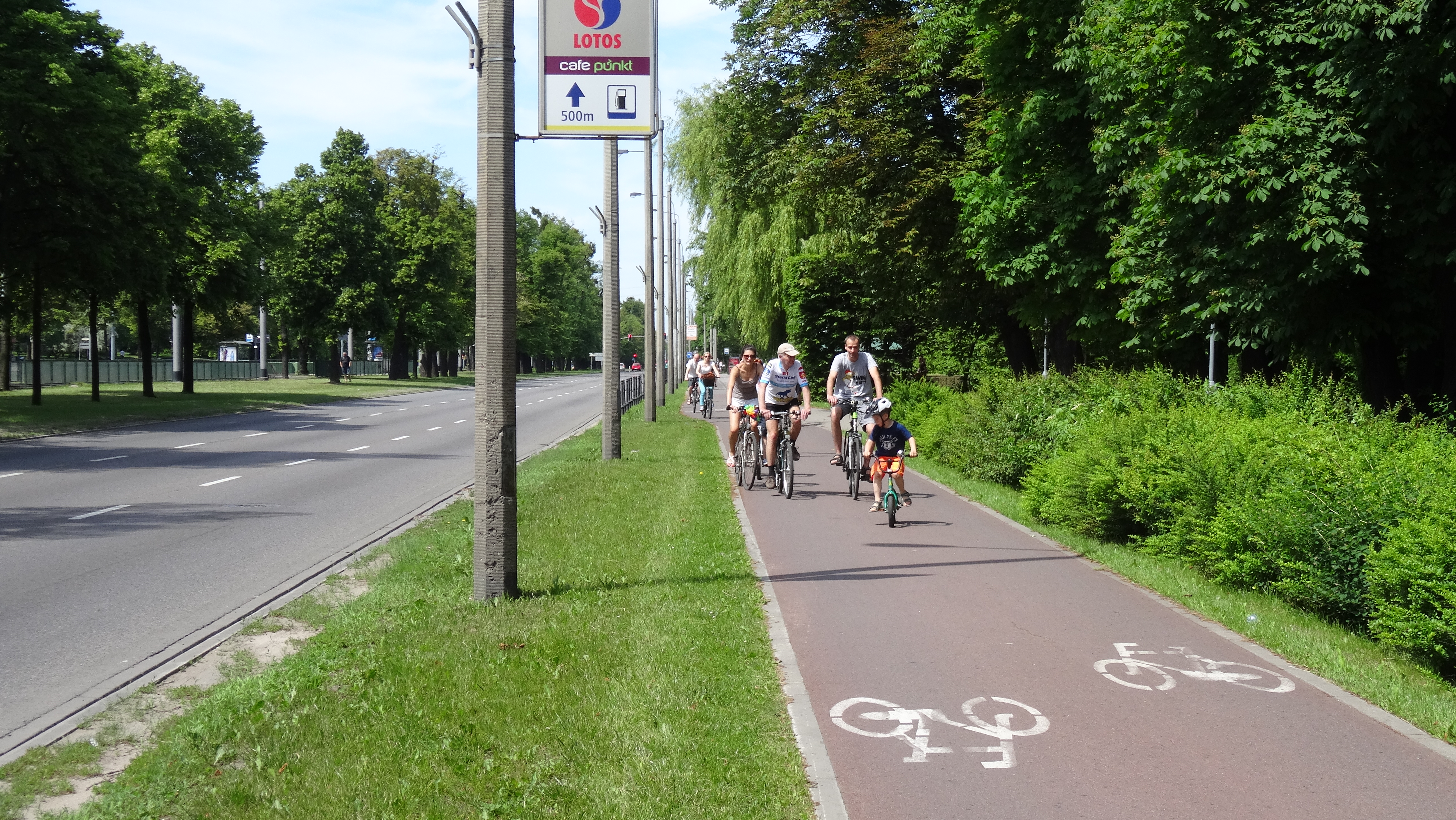 Gdansk Poland bicycle path Aleja Zwycięstwa